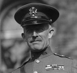 Fred W. Sladen